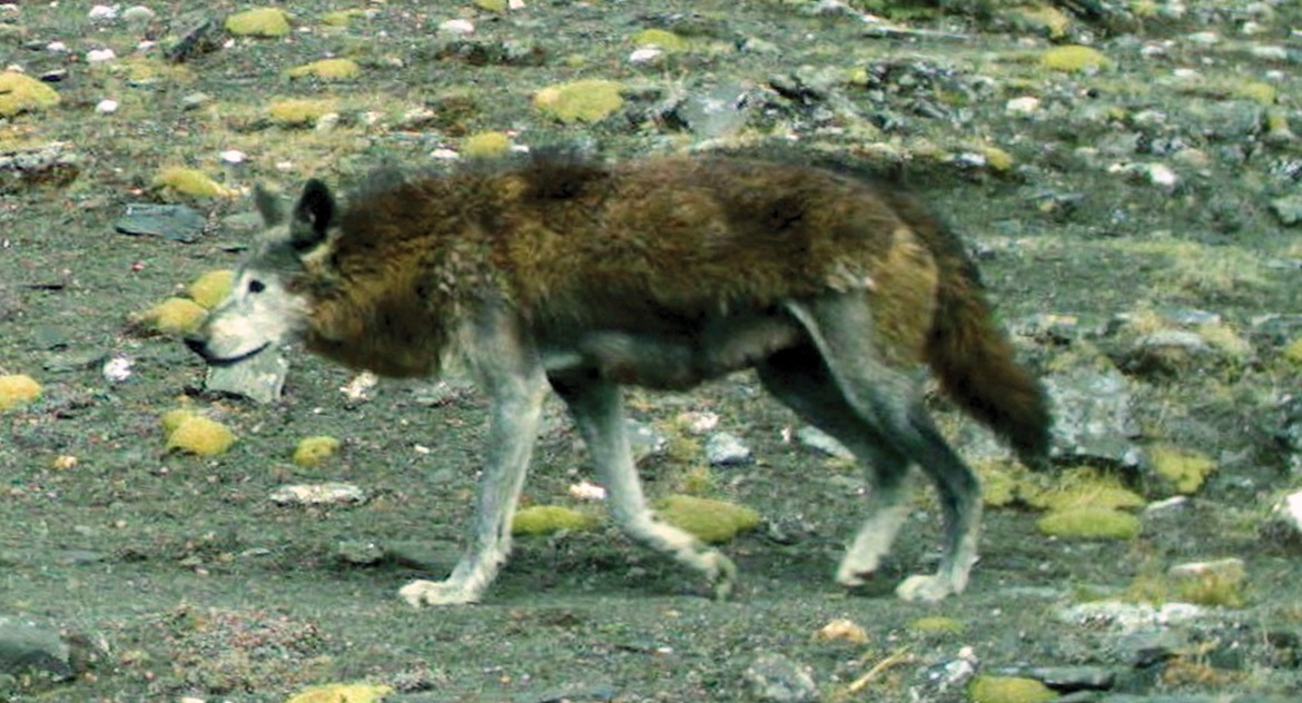 A Himalayan wolf photographed in Upper Mustang of Annapurna Conservation Area, Nepal (29.17356°N, 84.13422°E; datum WGS84, elevation 5,050 m) during May 2014.